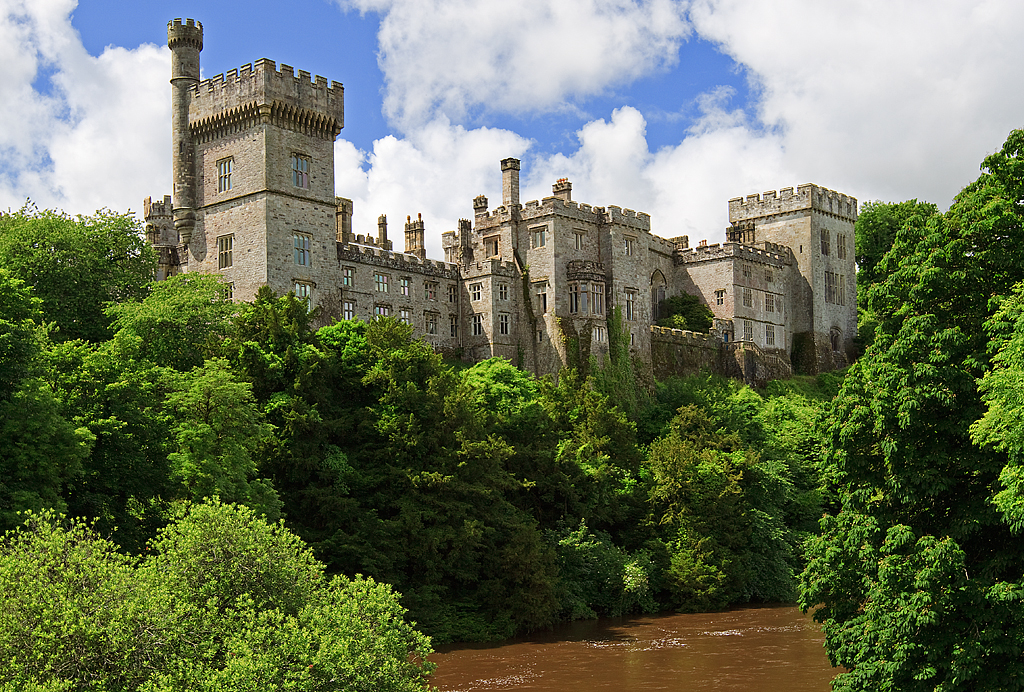 Castles of Munster: Lismore, Waterford. A castle has stood on this site since Prince John built a castle here above the River Blackwater in 1185. This was soon destroyed but later rebuilt, and provided a residence throughout the medieval period for the bishops of Lismore. It was damaged during the Desmond Rebellion of 1579 and was entirely rebuilt in 1621 by Sir Richard Boyle after its previous owner Sir Walter Raleigh was executed. At the end of the wars that devastated Ireland in the mid-C17 it was again in a ruinous state, and was remodelled by the 2nd Earl of Cork in the 1660s. After its neglect during the C18, a complete rebuilding was undertaken by the 6th Duke of Devonshire, whose descendants remain the current owners. The building works of 1814 totally transformed the old castle. The upper parts, the present battlements and turrets, and the majority of the features, date from this early C19 rebuilding, and it is just the lower parts of the old C17 walls that remain. There are also original gunloops in the NE tower, and in a circular tower on the west side, whilst the SE tower has older work up as far as the third storey.